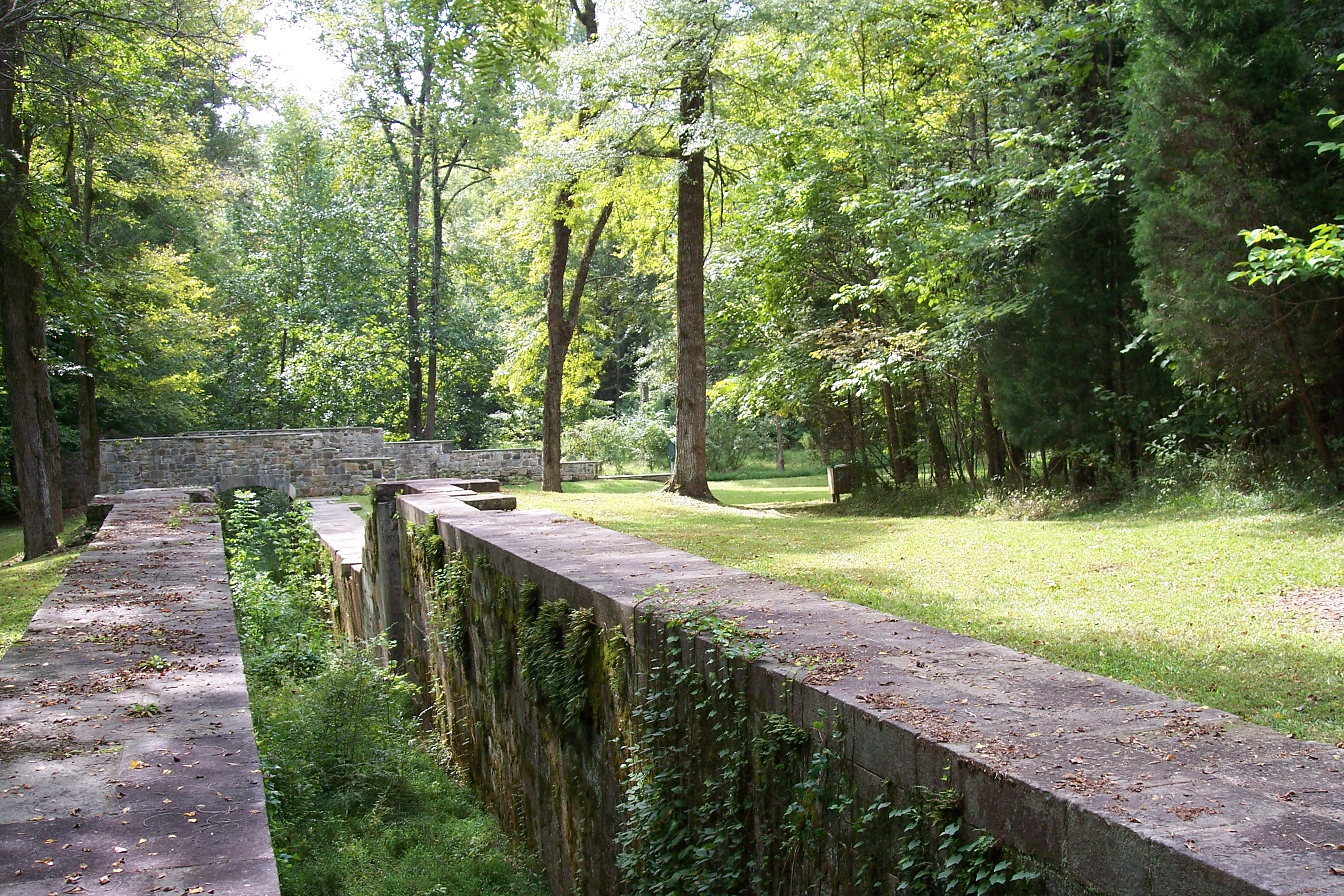 Overview of locks at Landsford Canal State Park in South Carolina